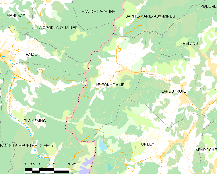 Map of French municipality